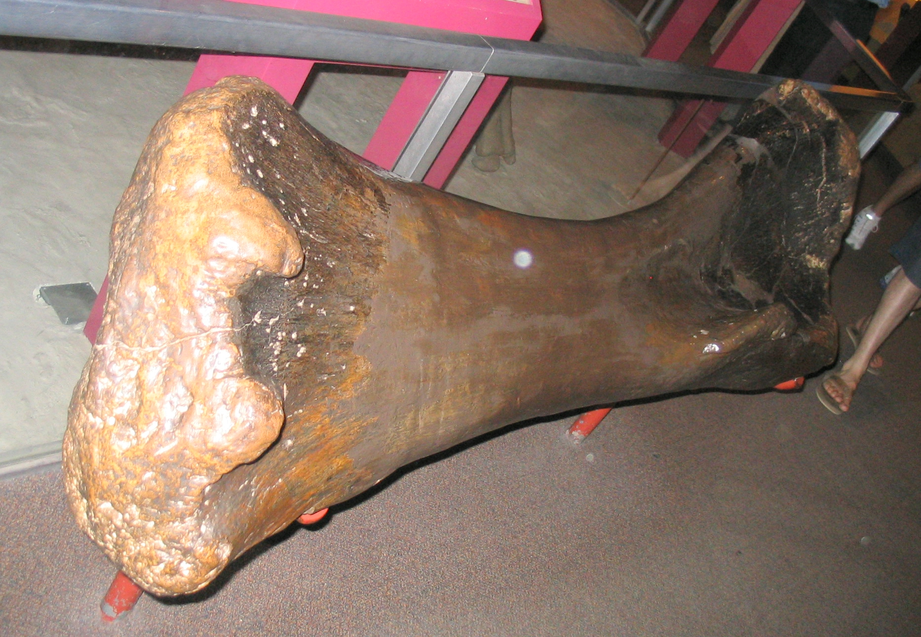 Brachiosaurus ulna (bone from the lower part of the front leg) USNM 21903 at the Smithsonian Museum of Natural History.